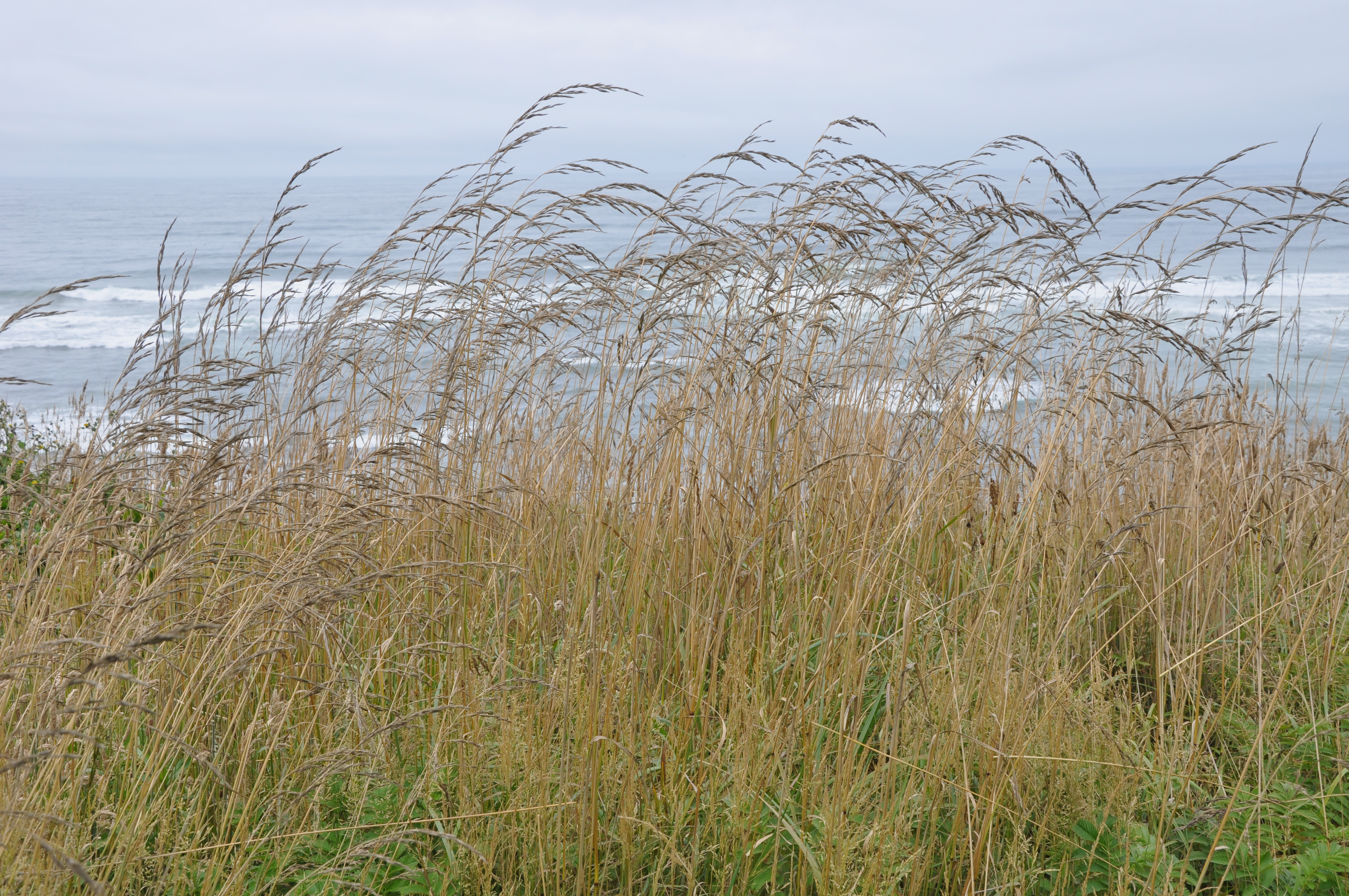 Tokatee Klootchman State Natural Site between Yachats and Florence in the U.S. state of Oregon.